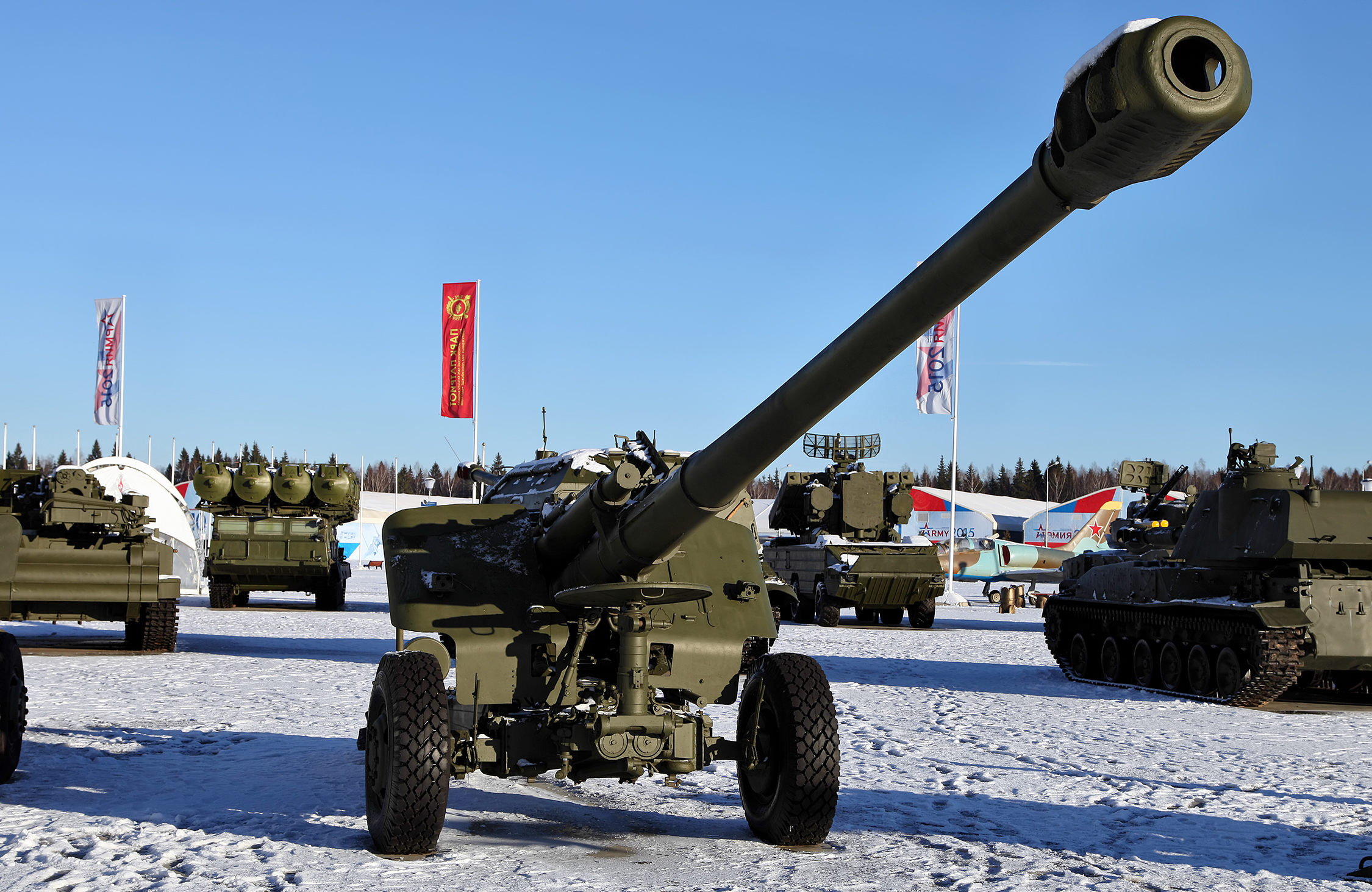 152mm howitzer 2A85 Msta-B